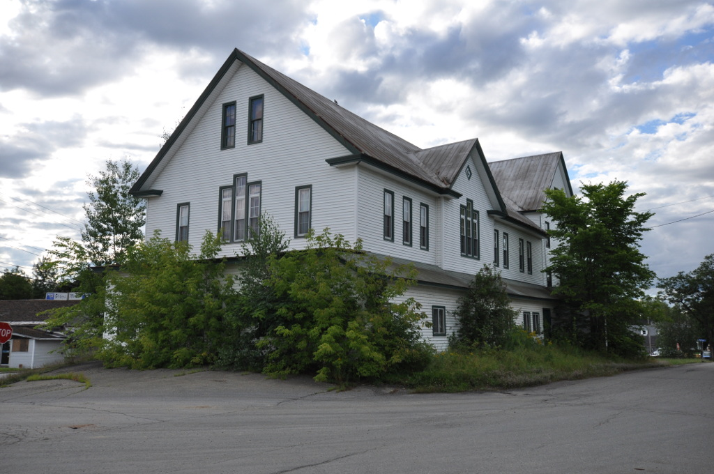 Island Falls Opera House, Island Falls, Maine.